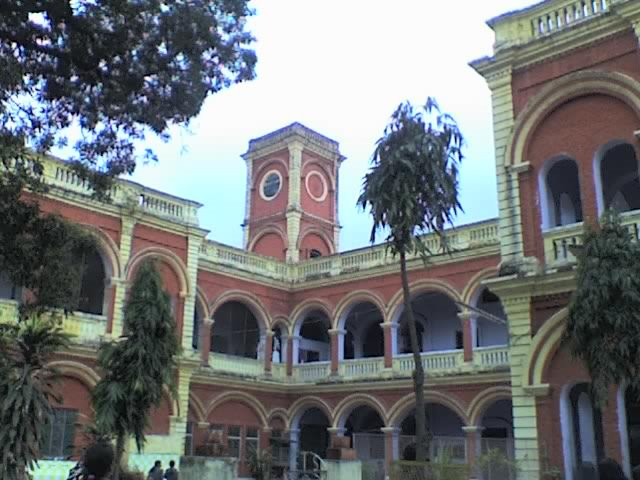 Close view of the school building.